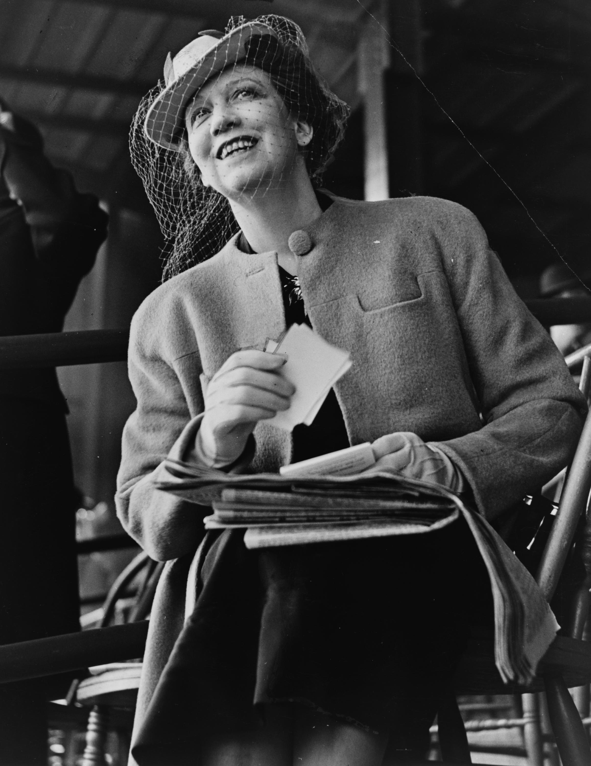 Elizabeth Arden (neé Florence Nightingale Graham), three-quarter length portrait, seated, facing front / photo by Alan Fisher.